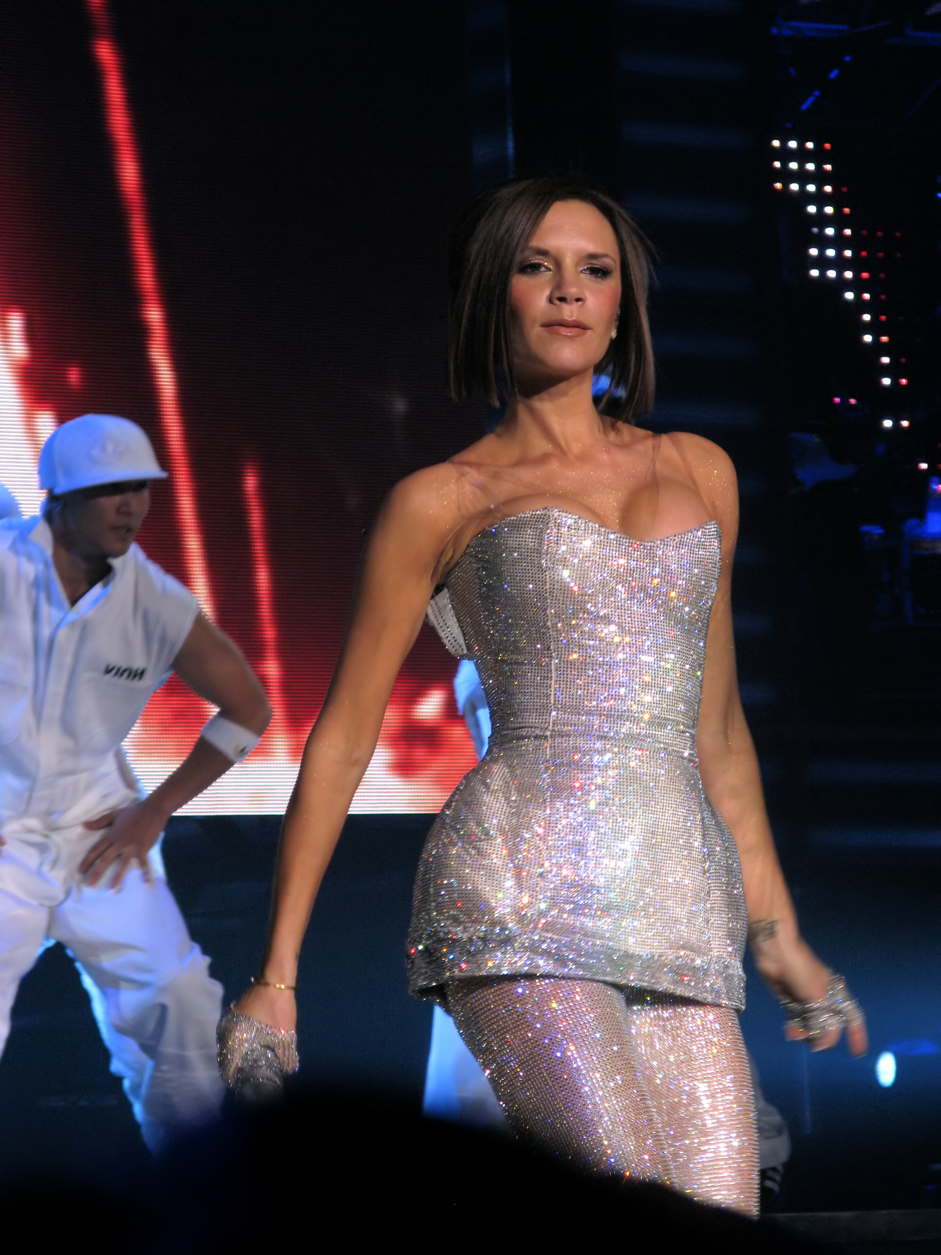 Victoria Beckham performing with the Spice Girls in Las Vegas